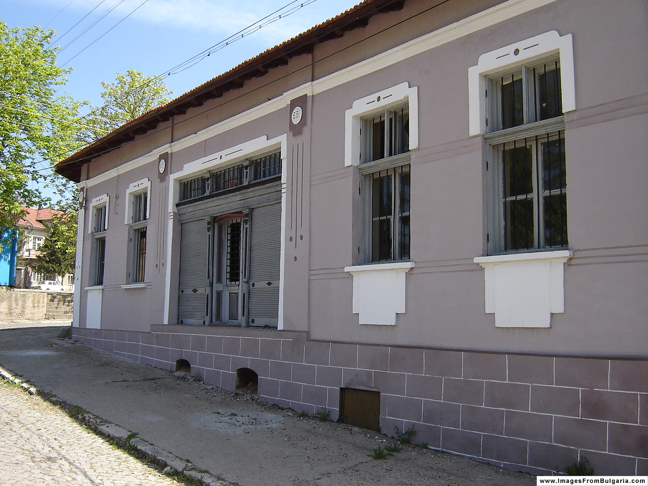 House in Medkovets, Bulgaria